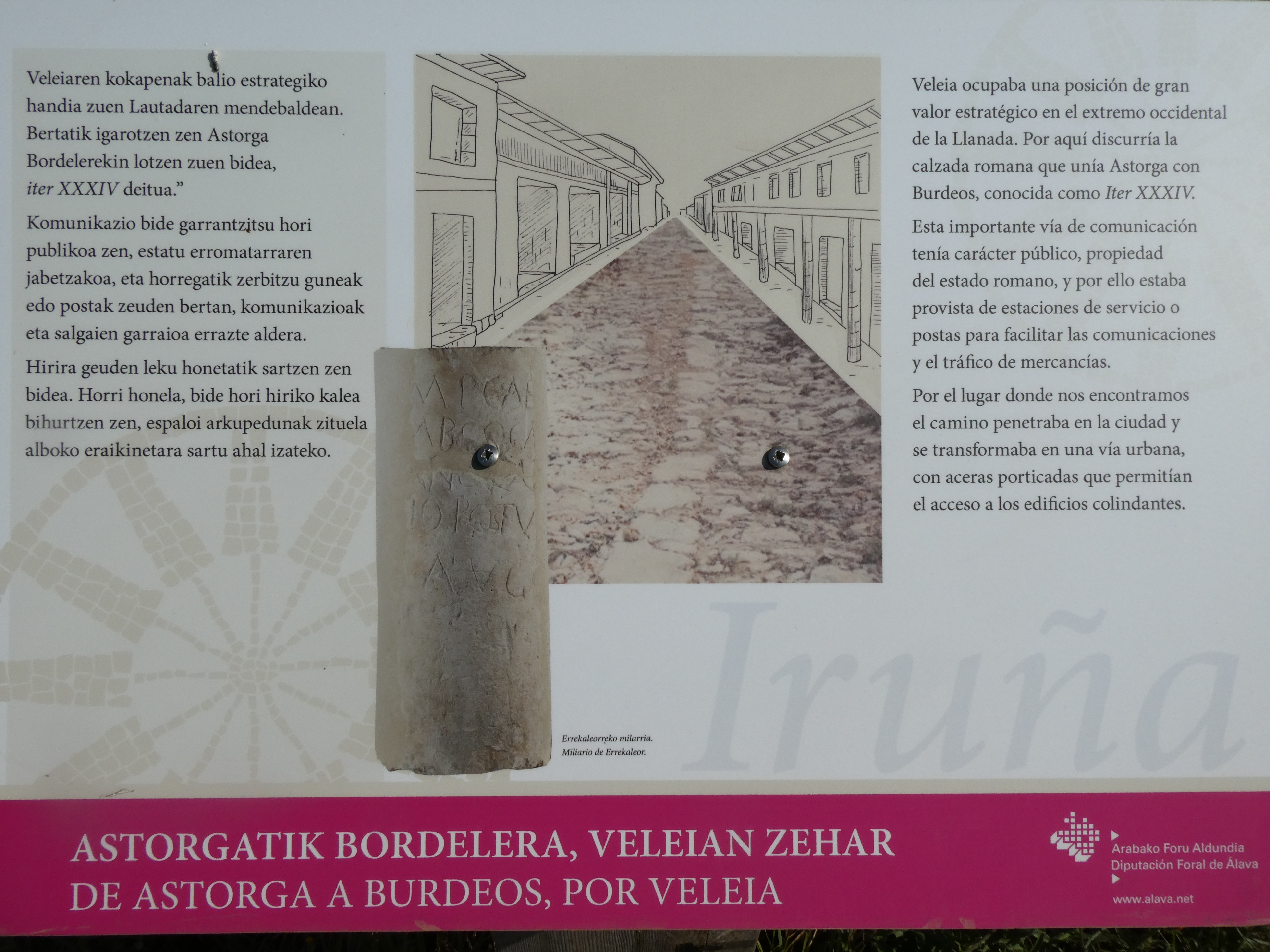 Veleia romain city